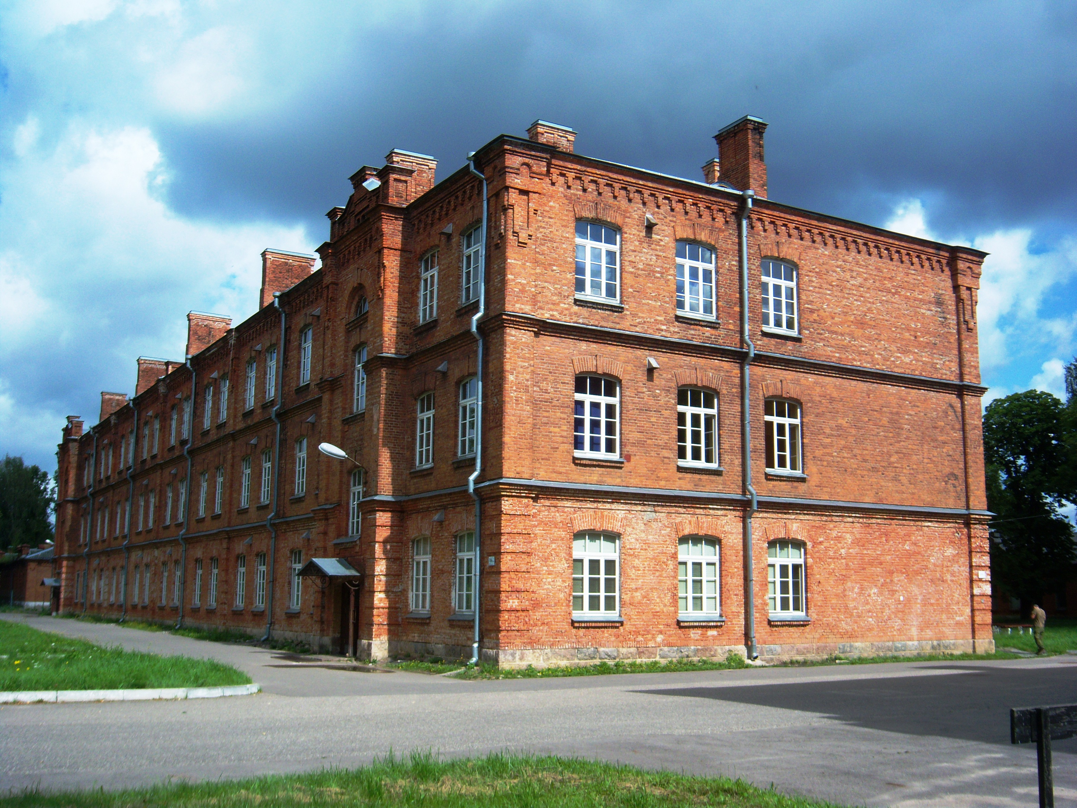 Jäger batallion barrack (building of the former Military School), Panemunė, Kaunas, Lithuania